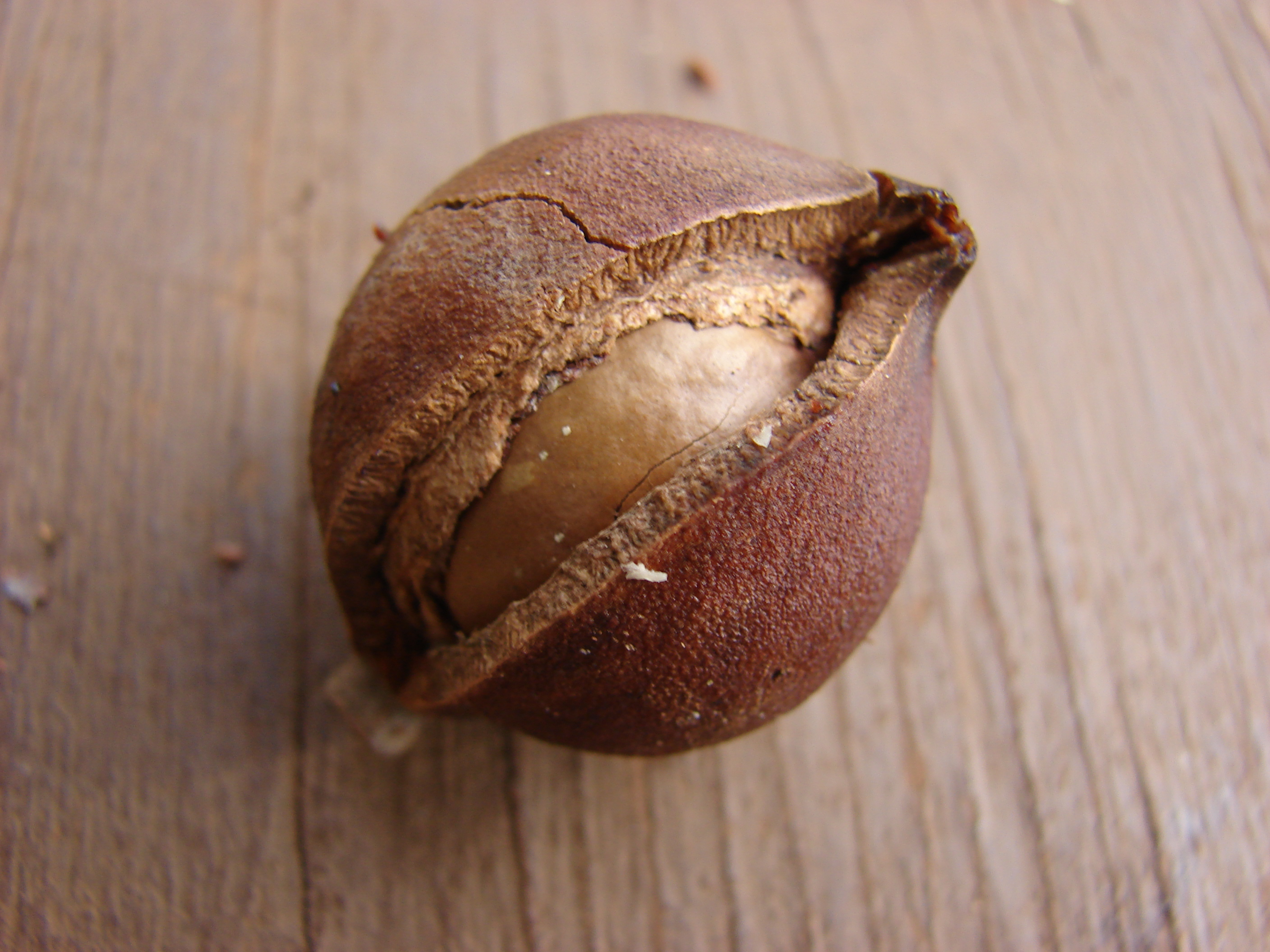 Macadamia integrifolia (nut with shell cracked). Location: Maui, Makawao